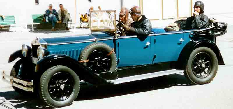 Fiat 520 Torpedo 1928